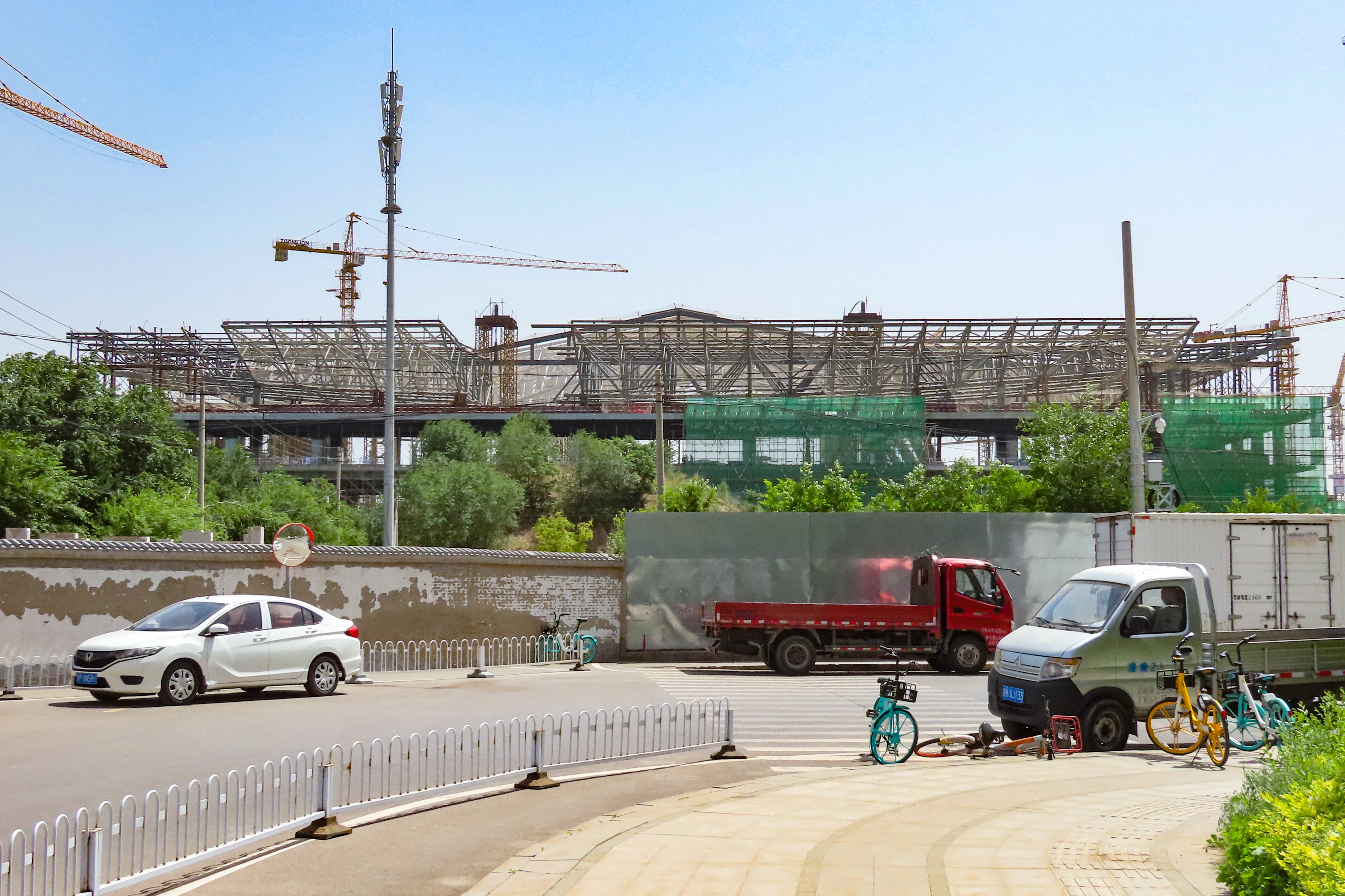 An annoying wall in front of it...